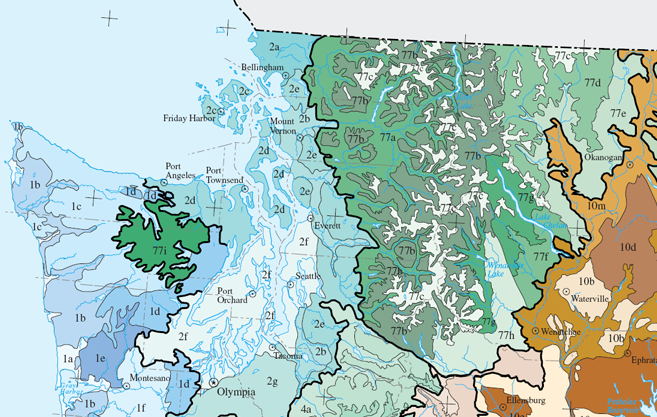 Level IV ecoregions in the Northern Cascades ecoregion, as defined by the EPA. This map is a draft and may now be slightly outdated. For more information about these ecoregions, see [1]